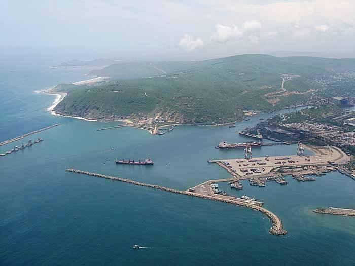 Visakhapatnam, India.